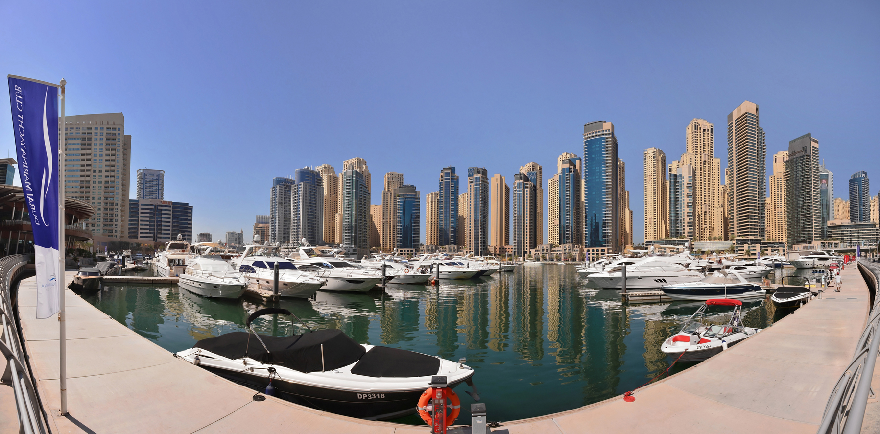 180° Rectilinear Panorama of Dubai Marina in a Broad Daylight